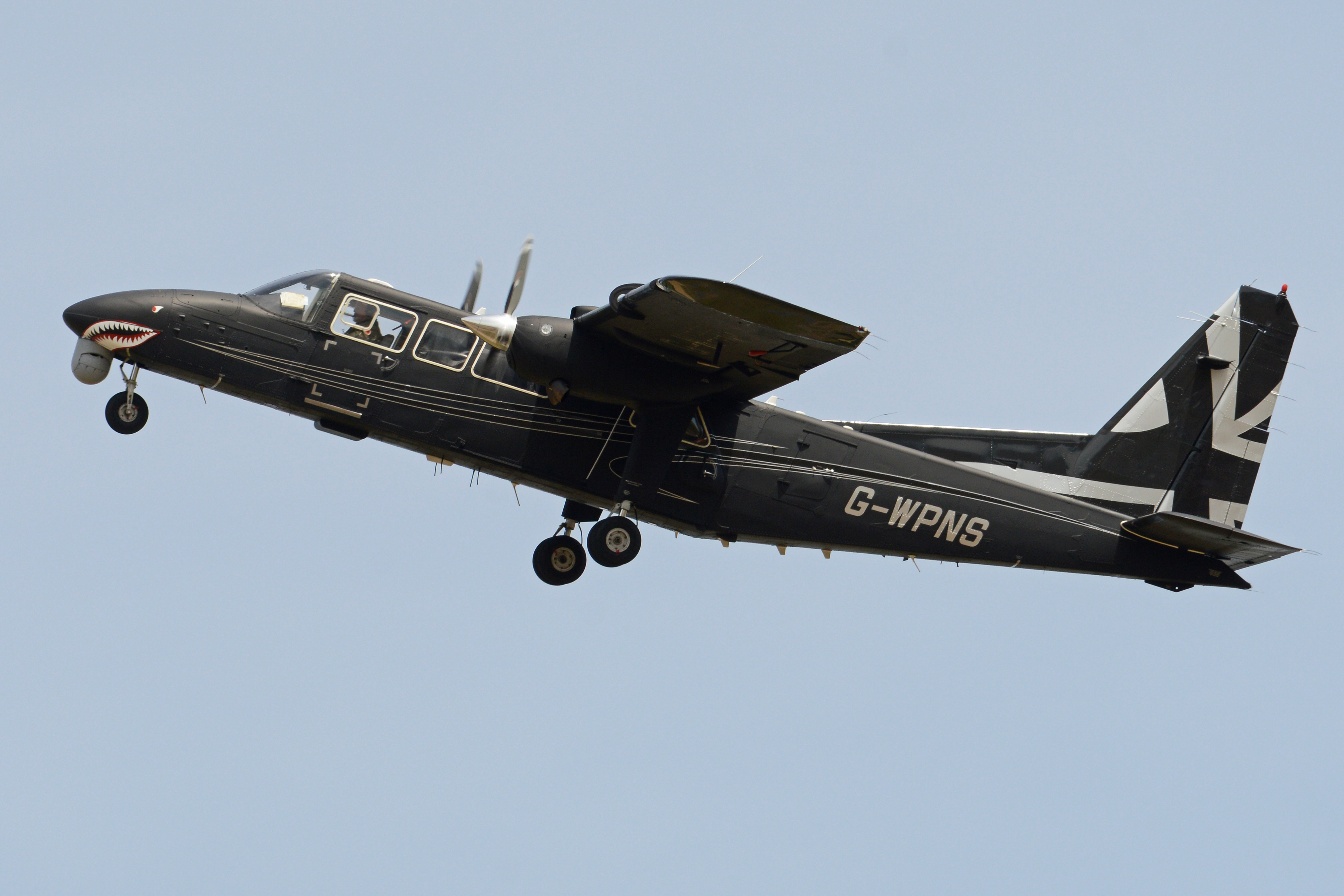 c/n 4011 Built 2002 Operated by Britten-Norman as a demonstrator. Seen departing after taking part in the 2017 Royal International Air Tattoo. RAF Fairford, Gloucestershire, UK. 17th July 2017